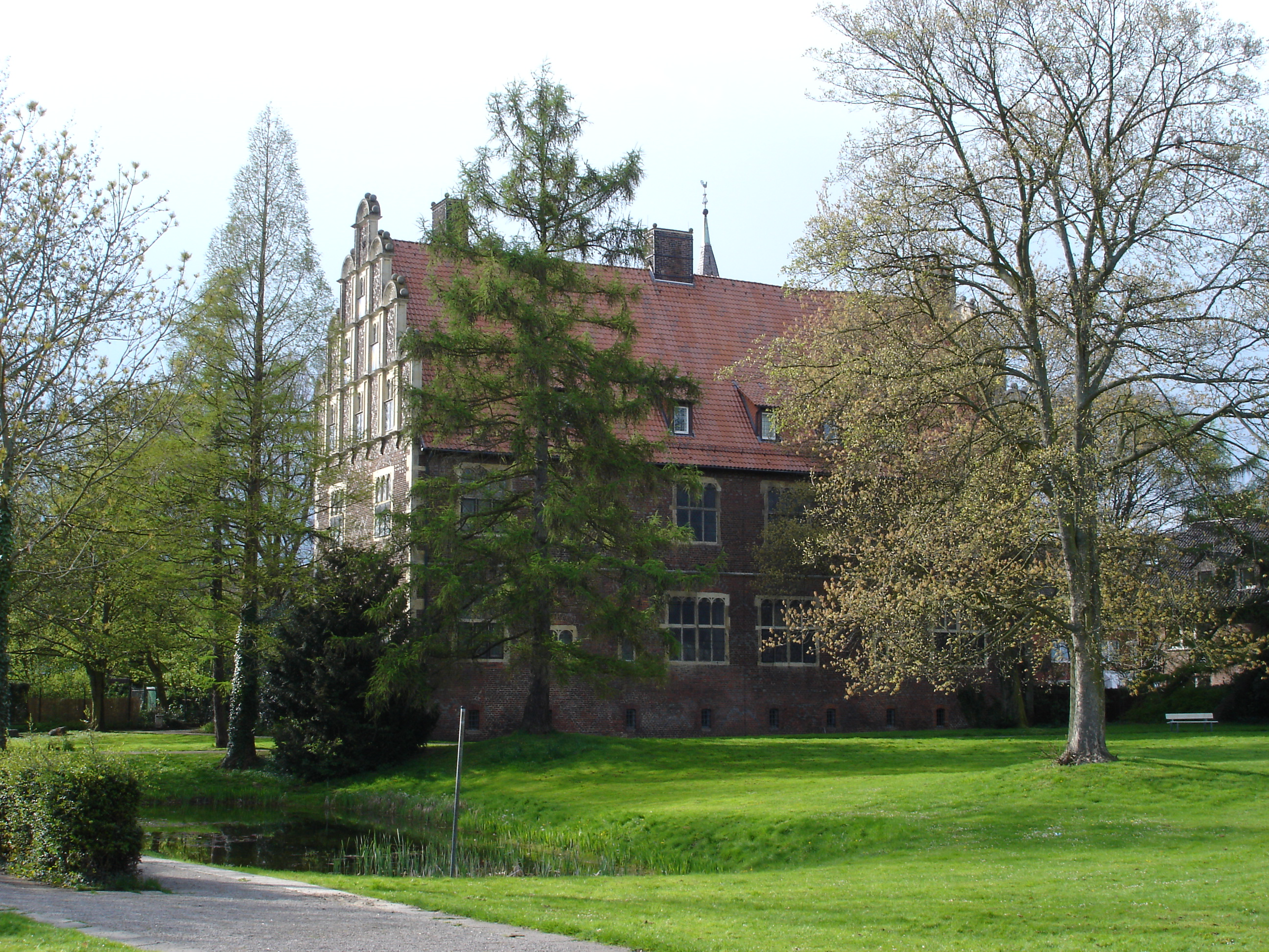 Panorama of the "Drostenhof" in Wolbeck, borough of Münster, Westphalia, Germany